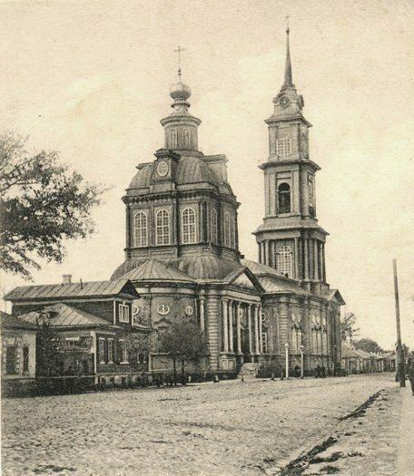 Church of Saints Florus and Laurus (Tula)